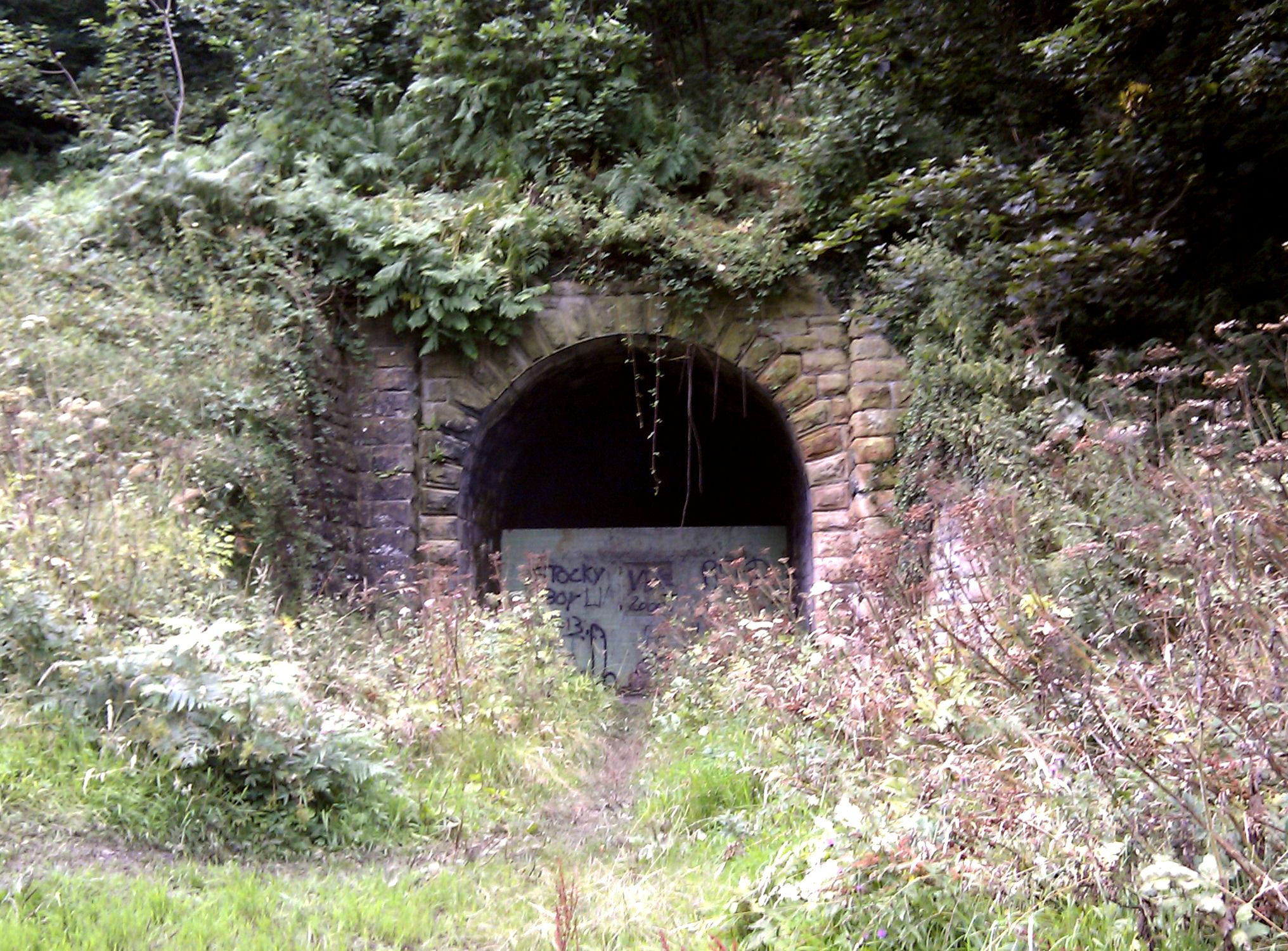 Sandswnd Tunnel, on the former Whitby, Redcar and Middlesbrough Union Railway that was opened in 1883 and closed in 1958. Southern entrance.